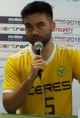 Ceres-Negros assistant coach Ronald Ian Treyes (right) with 'Man of the Match' Mike Ott during the post-game press conference in Bacolod City Wednesday night (April 4, 2018). (Photo by Nanette L. Guadalquiver)